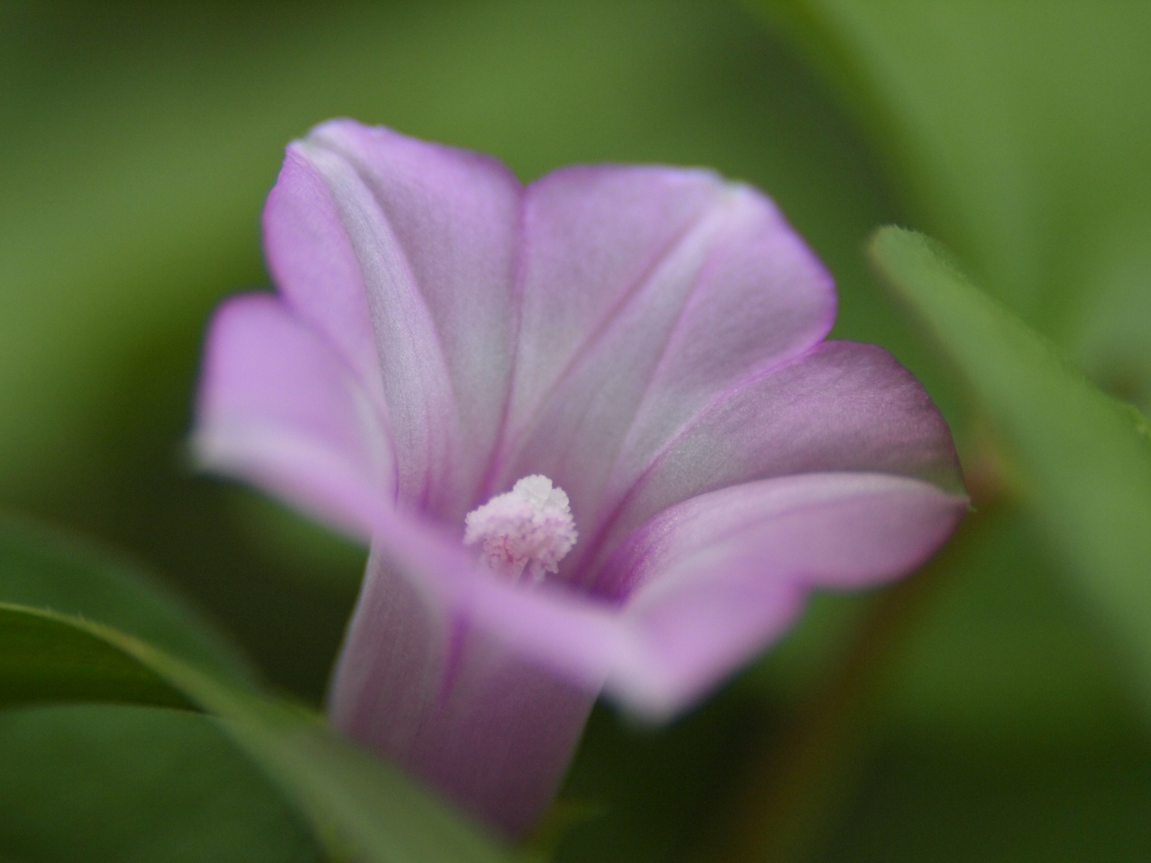 Ipomoea aquatica (kangkung) in Malaysia